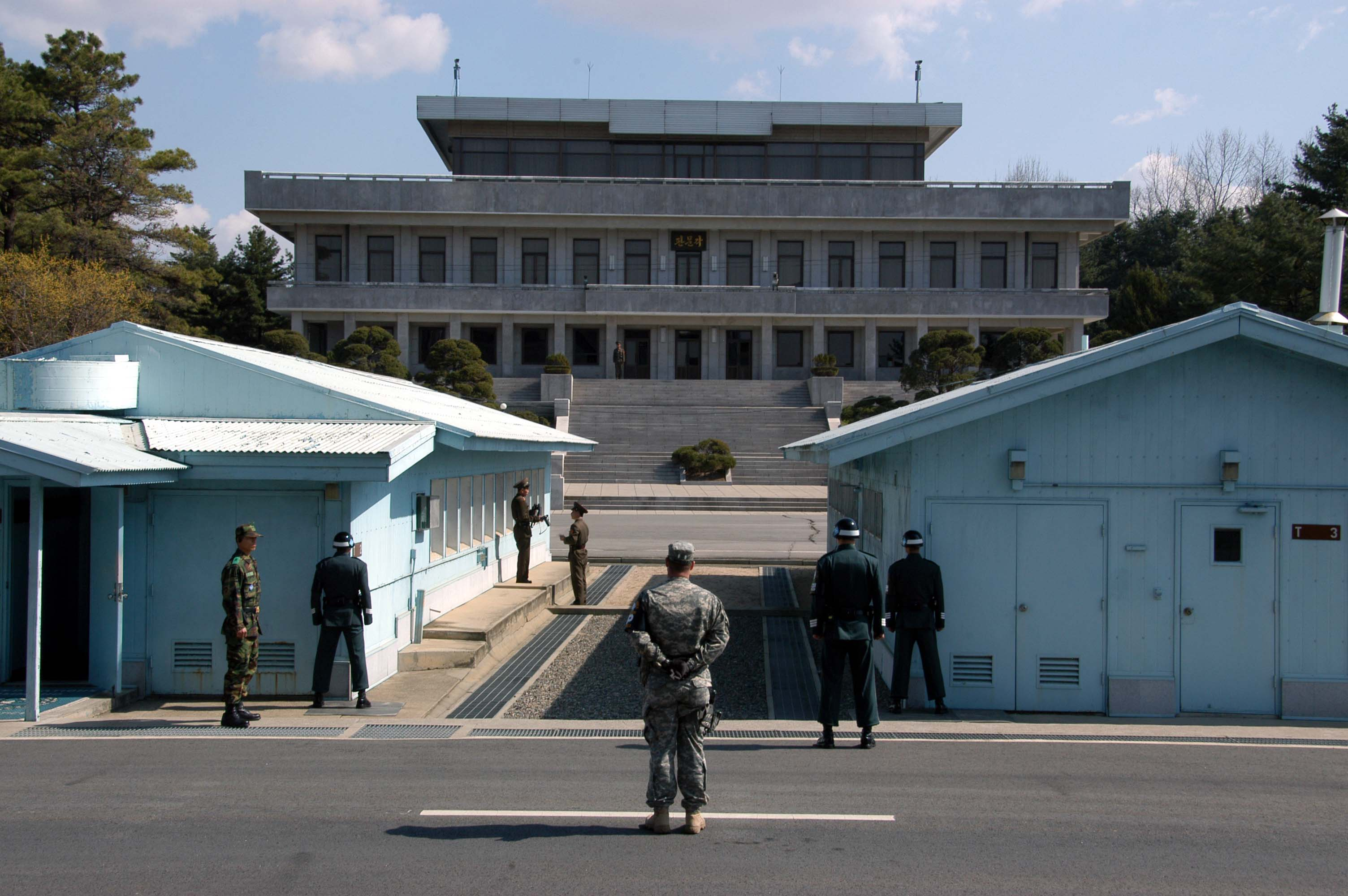 A view from South Korea towards North Korea in the Joint Security Area at Panmunjom. North and South Korean military personnel, as well as a single US soldier, are shown.